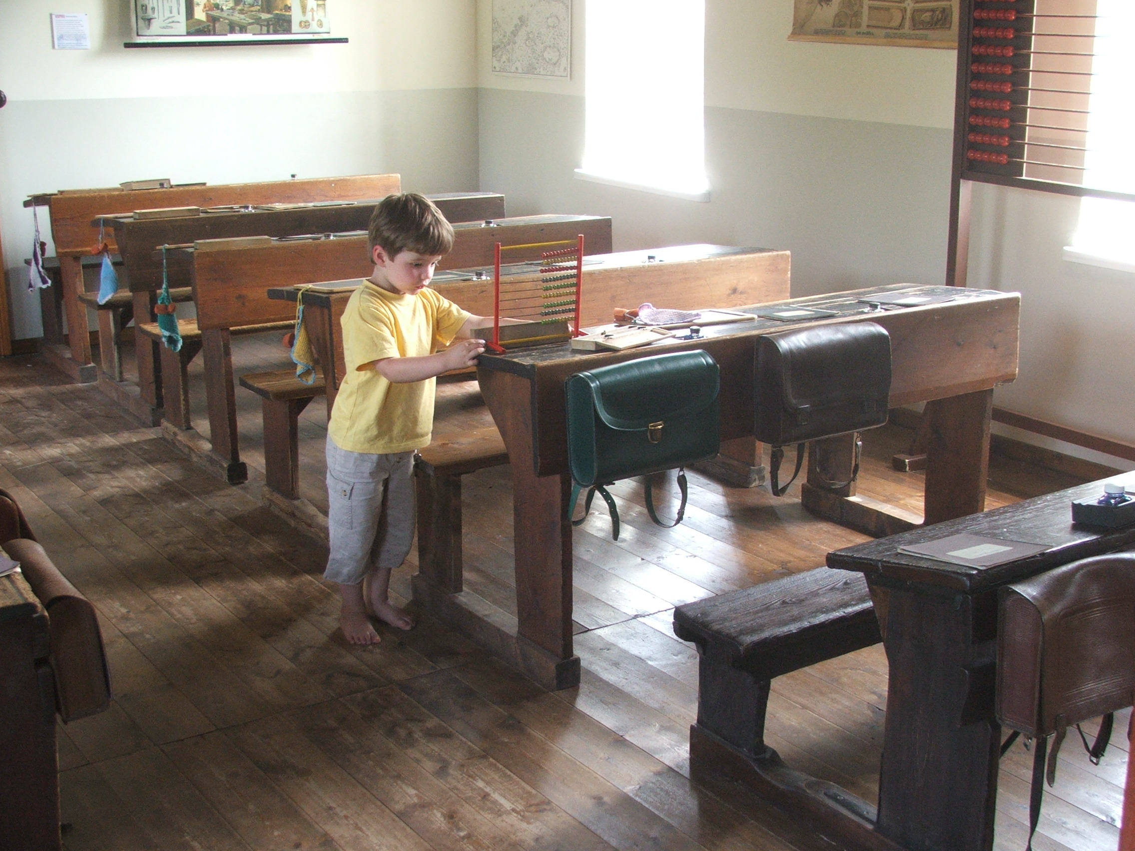 Old classroom at Torf- and Siedlungsmuseum Wiesmoor